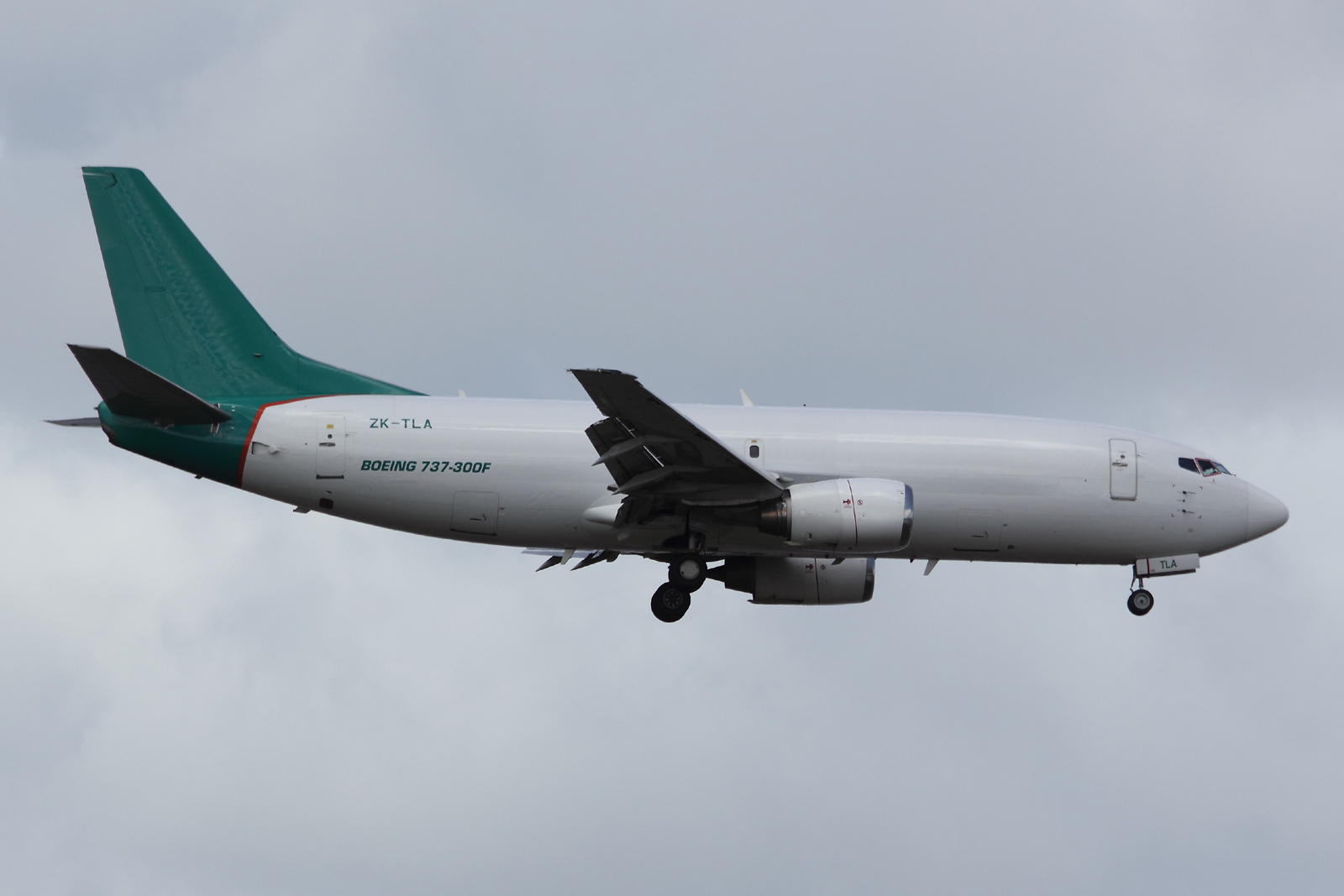 ZK-TLA Boeing 737-3B7F (23383), Airwork Flight Operations Ltd, 16 October 2013 - Auckland